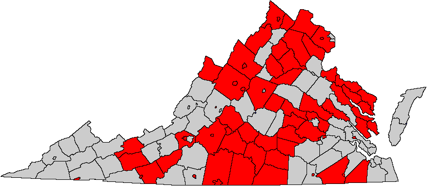 Map showing county and city choices of the 1973 gubernatorial election in Virginia